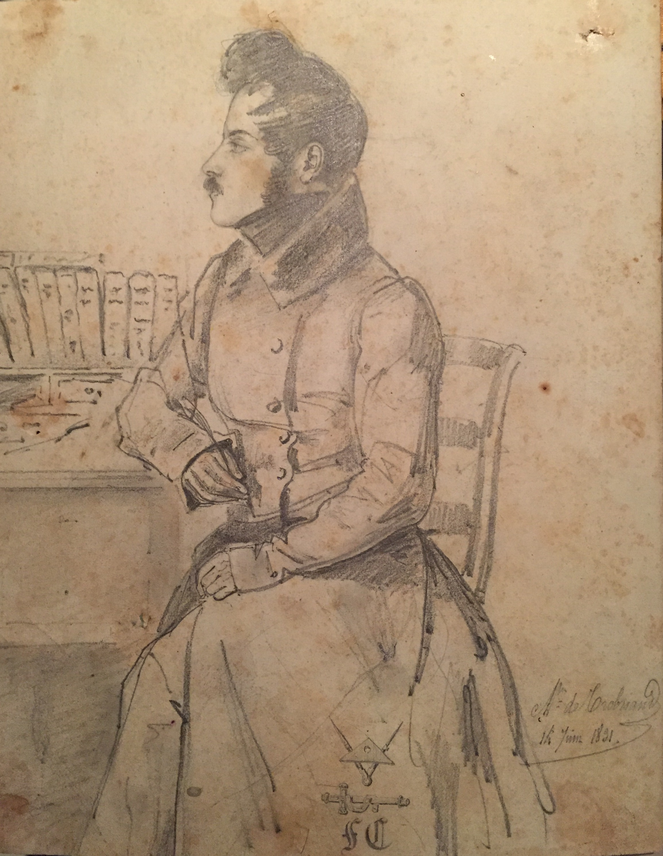 portrait of Baron Frédéric-Charles Chassériau in 1831 by Count Adolphe de Trobriand